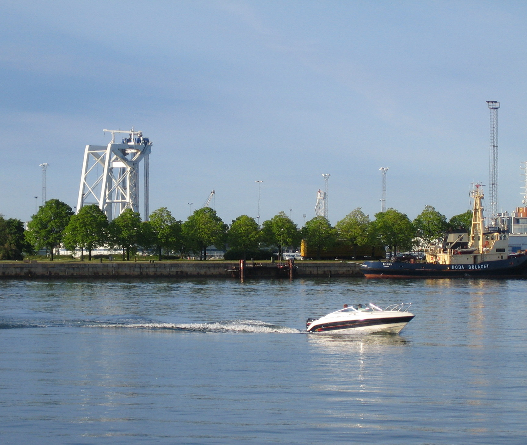 Svanen, the floating crane that was used to build the Öresund brigde and a tug boat from Röda Bolaget. Speed boat in the front. Malmö harbour, Sweden.